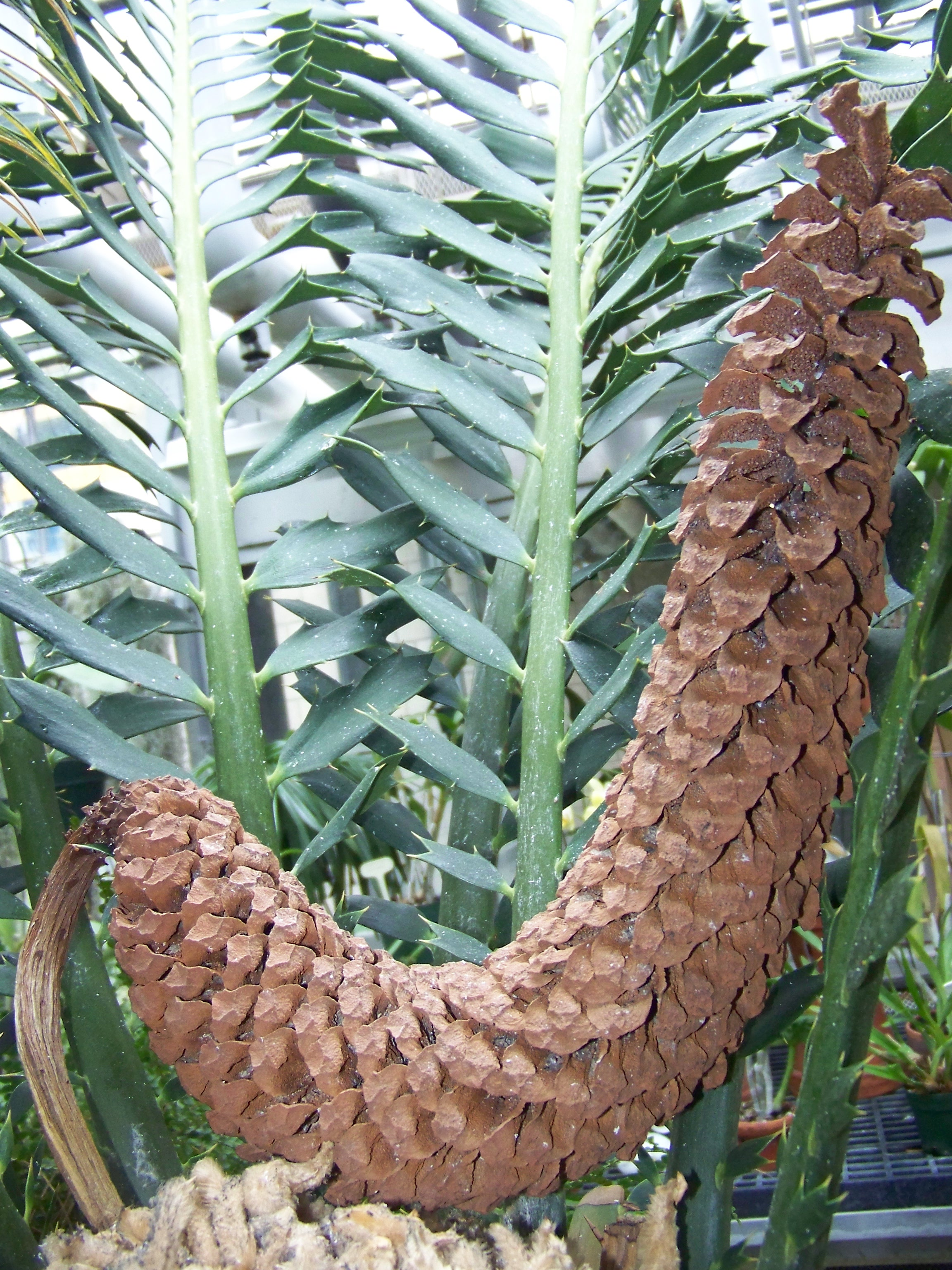 This a picture of Encephalartos ferox that I took at the Binghamton University Greenhouse. This is a male cone.